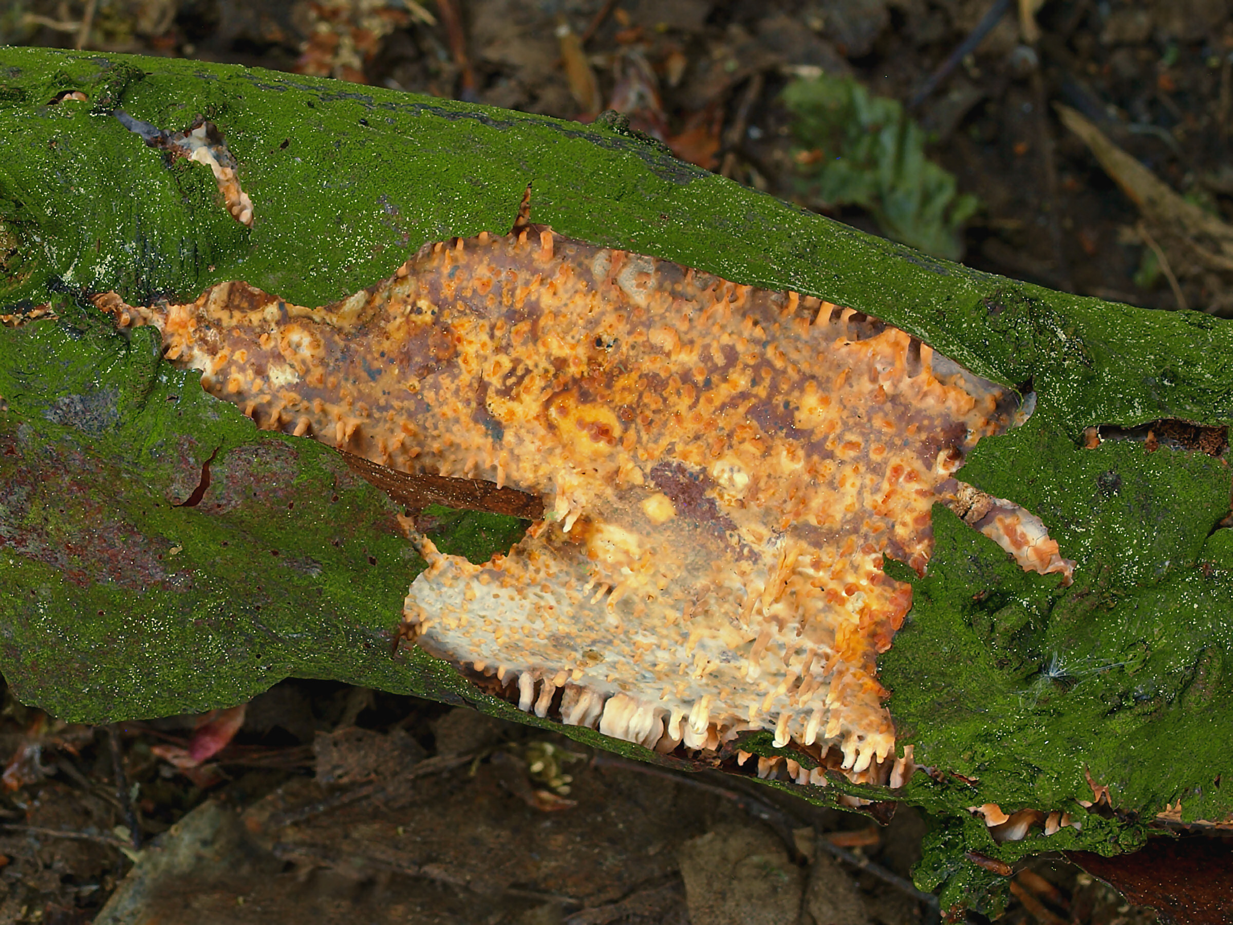 Peniophora laeta on Carpinus betulus. Hurlach.